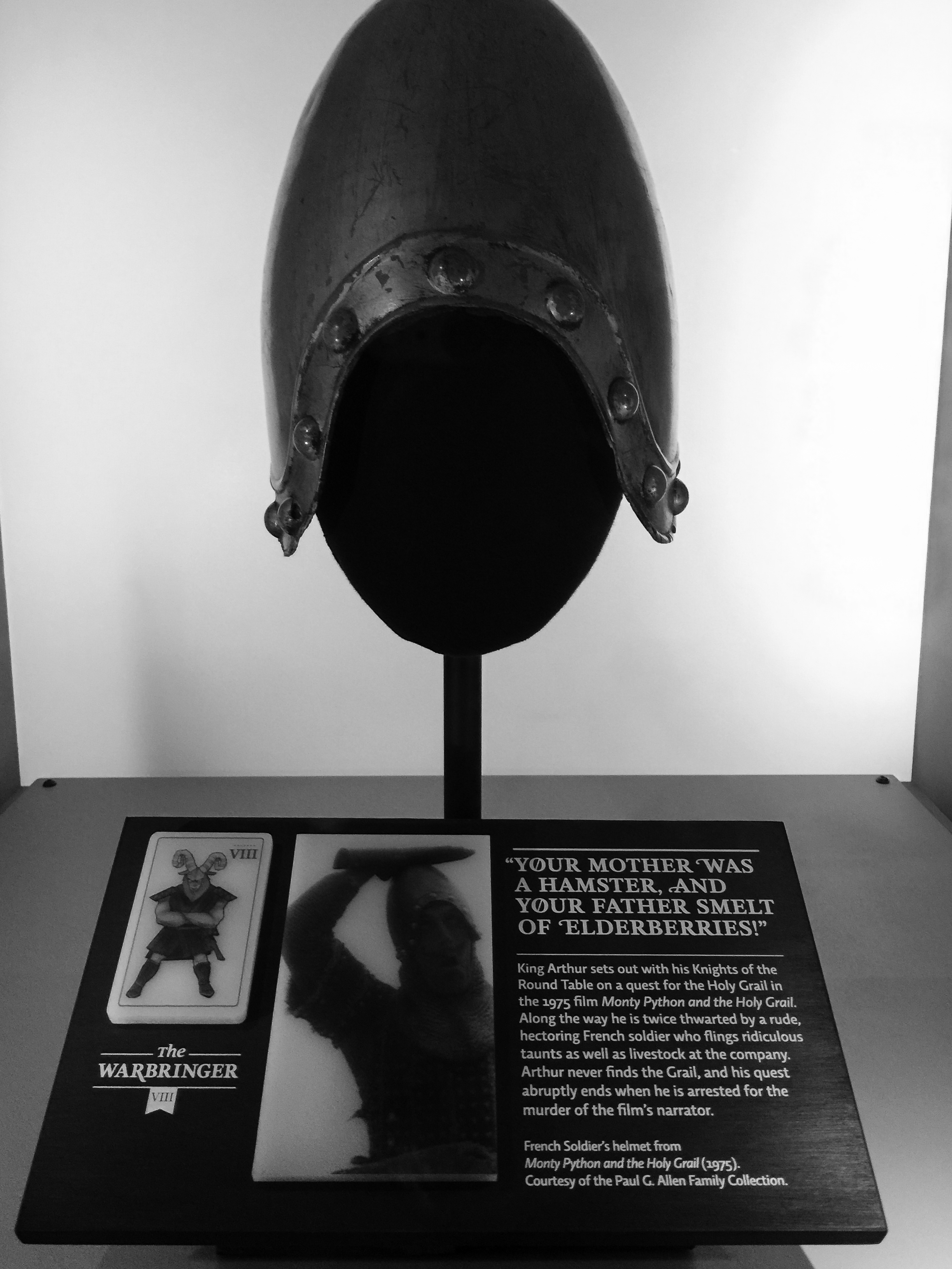 Experience Music Project/Science Fiction Hall of Fame, Seattle.